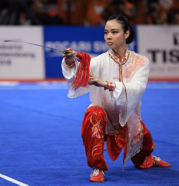 Lindswell Kwok at the 2018 Asian Games